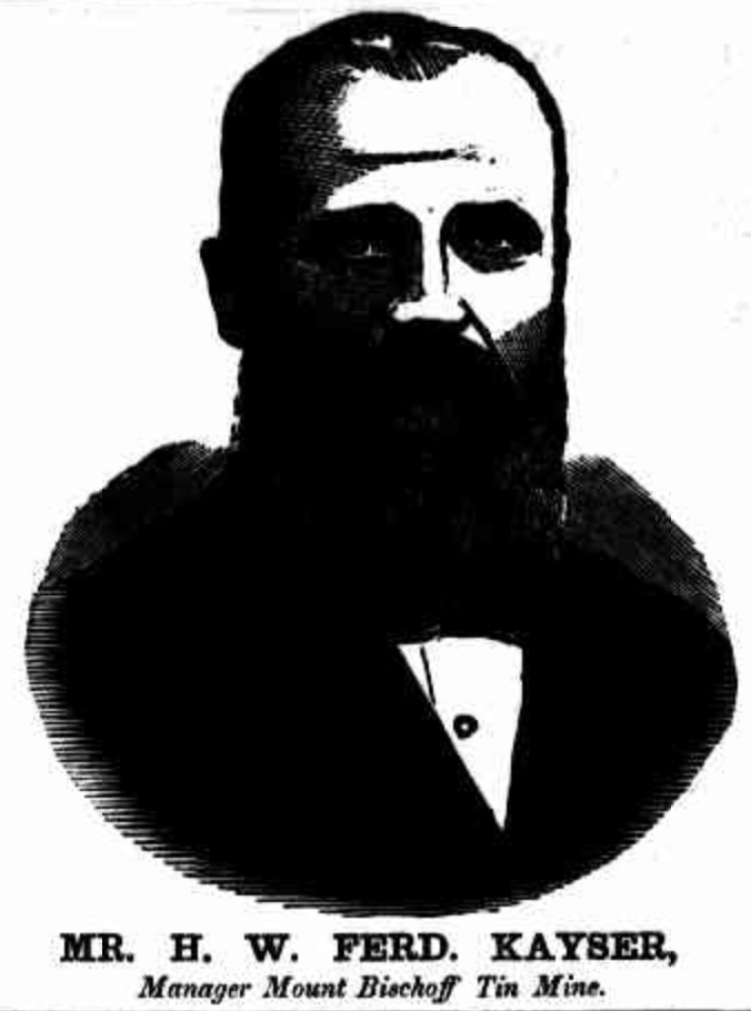 Illustration of Mr. Heinrich Wilhelm Ferdinand "Ferd" Kayser, manager of the Mount Bischoff Tin Mine. Published in the Launceston newspaper The Colonist on 14 April 1888